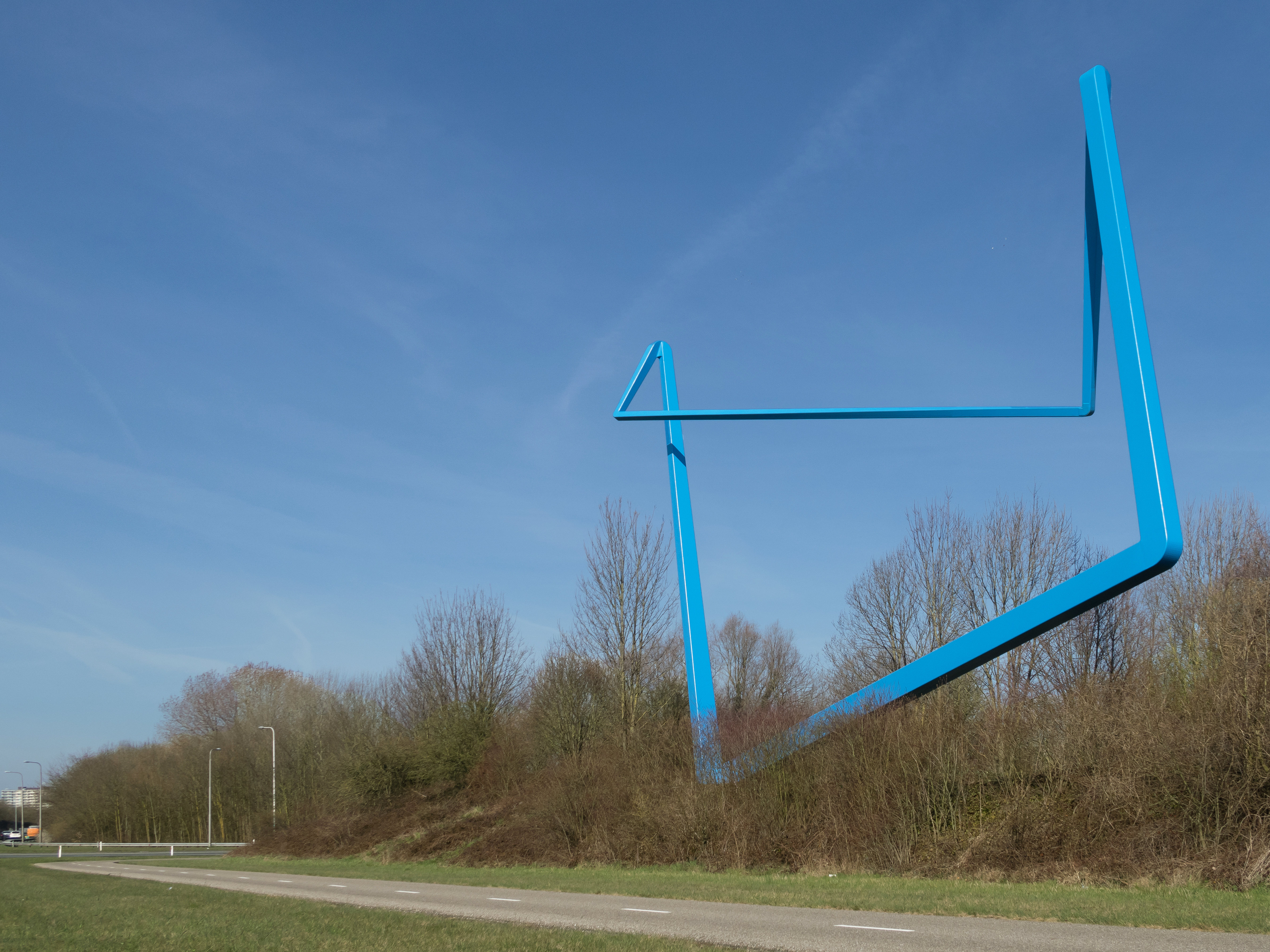 Arnhem-Sacharovbrug, sculpture het Dansend Vierkant (the Dancing Square) designed by Marijke de Goey